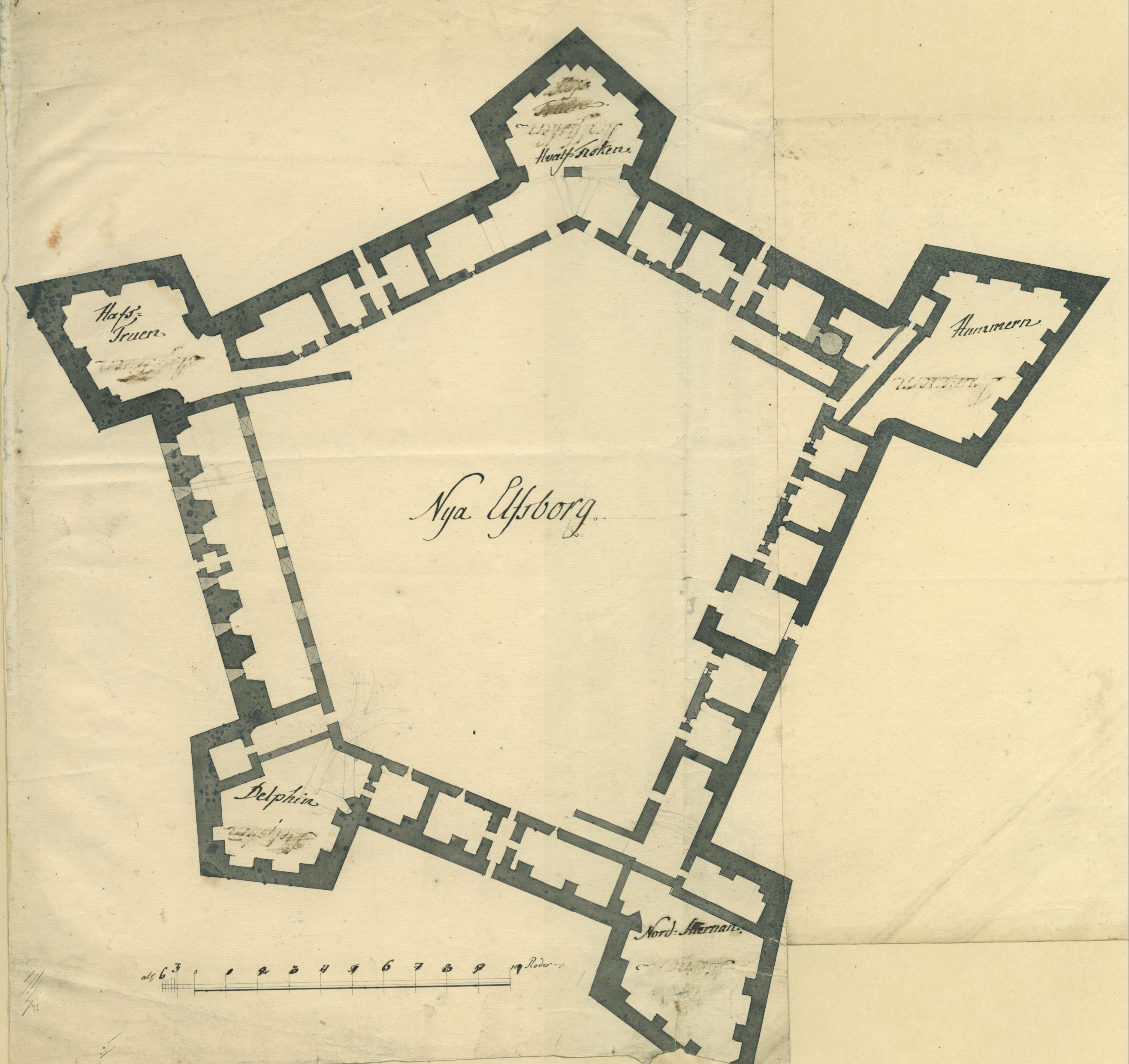 Drawing showing the bastions at fortress Nya Efsborg i Gothenburg, Sweden, dated approximately 1679.